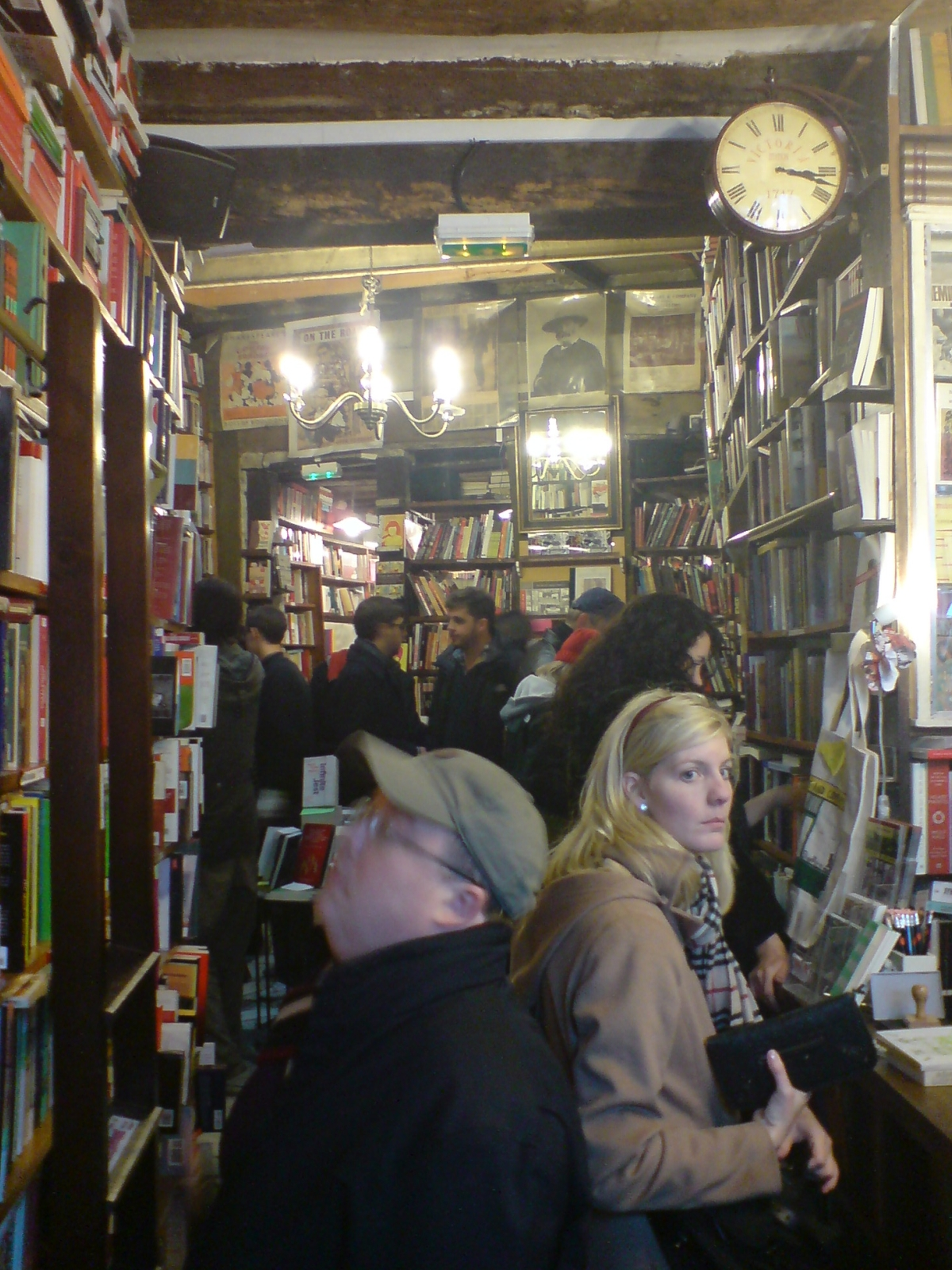 The 'Shakespeare and Company' bookshop in Paris, France. Looking inside it from near the front door.